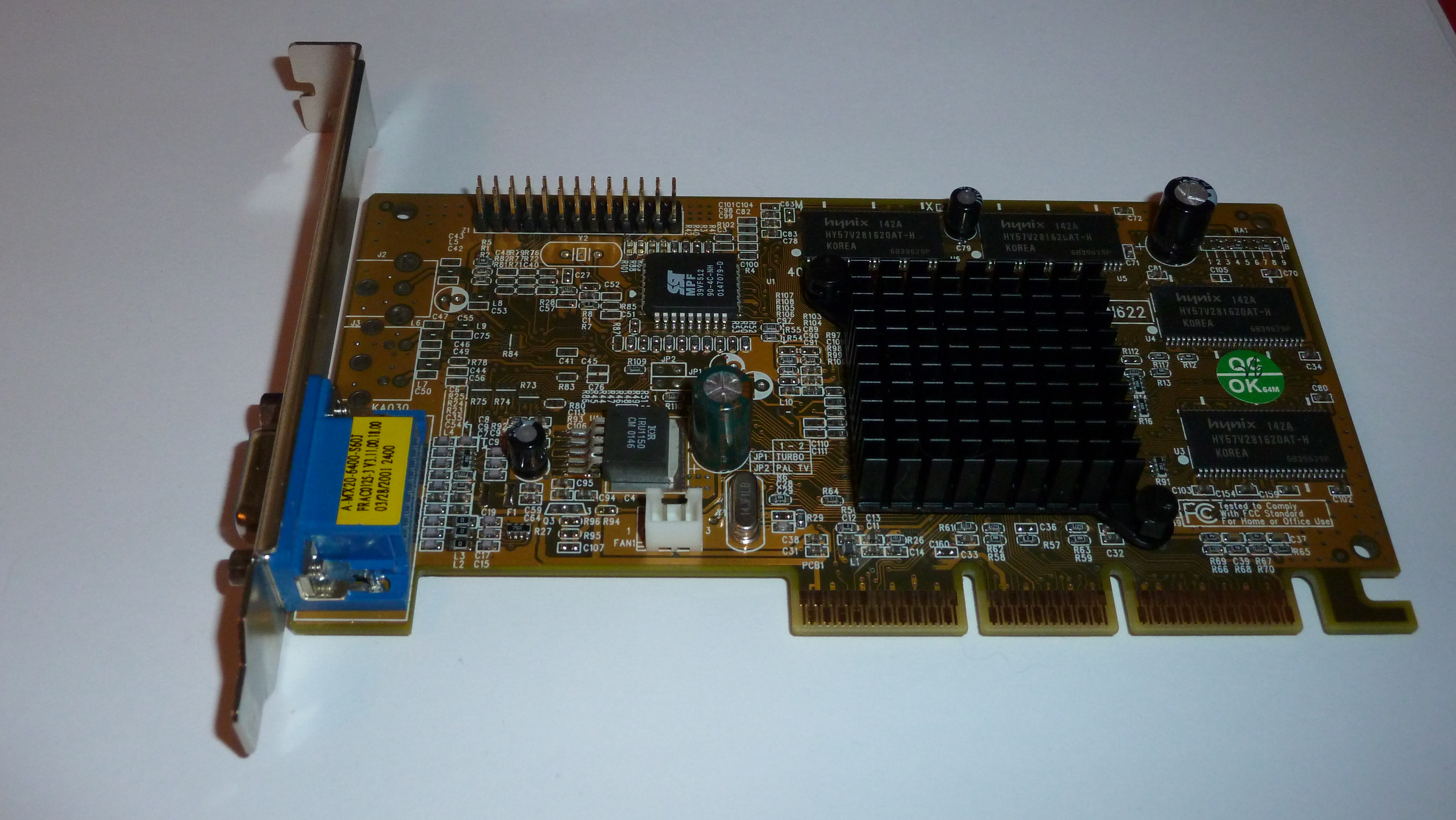 Chaintech A-MX20-6400-S60J graphics card, manufactured in 2001, with Nvidia RIVA TNT2 GPU and 64MB video memory. Note: this image will likely be updated in future with a higher quality image of the same item.